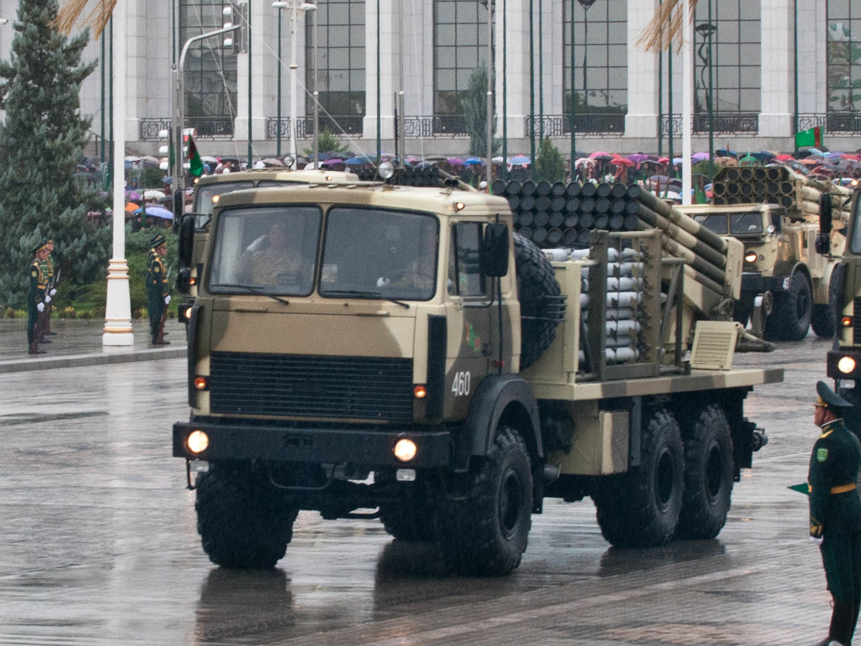 Celebrating the 20th year of independence in Turkmenistan